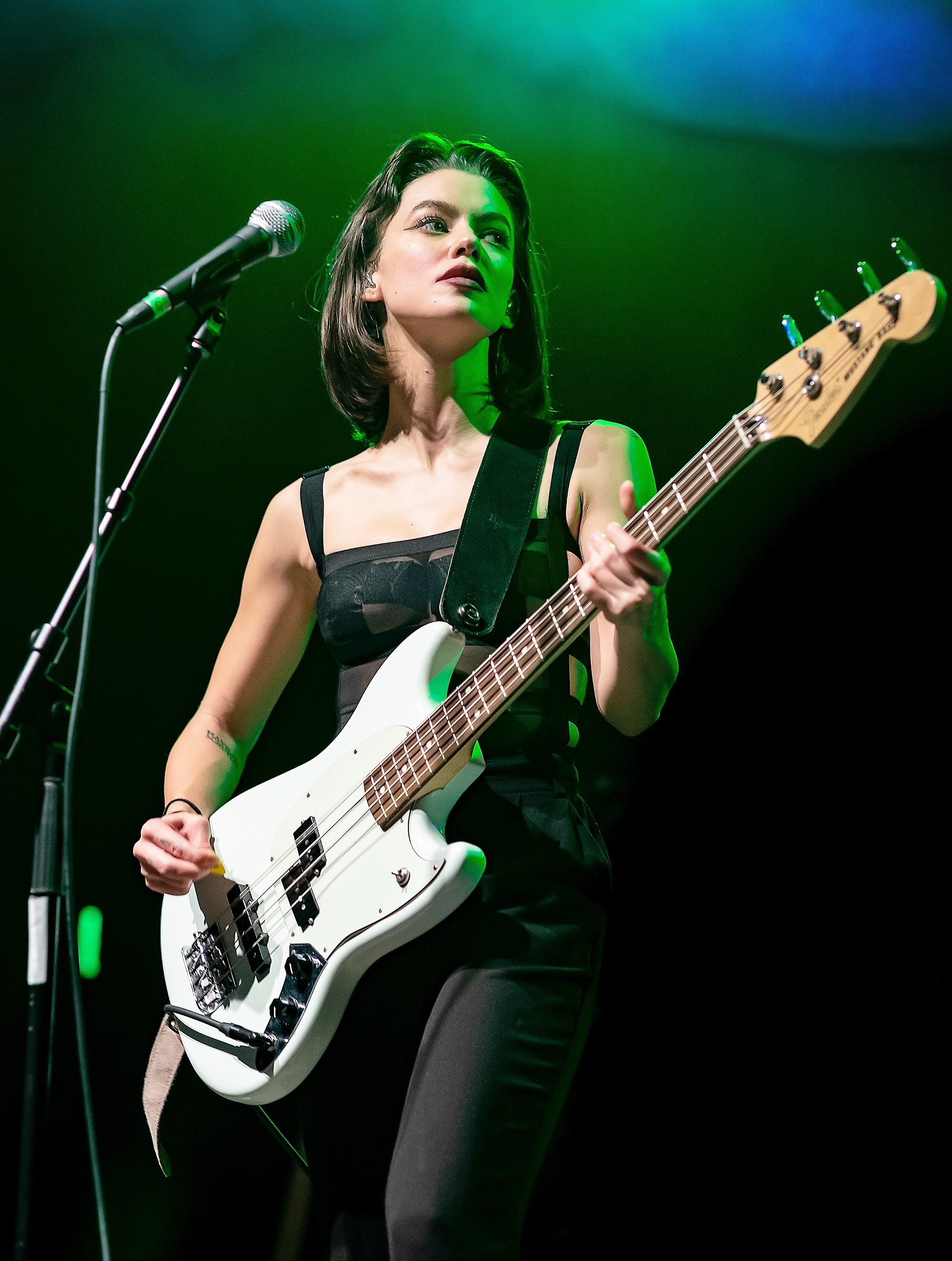 Meg Myers performing live at the El Rey Theatre, Los Angeles, in 2018.